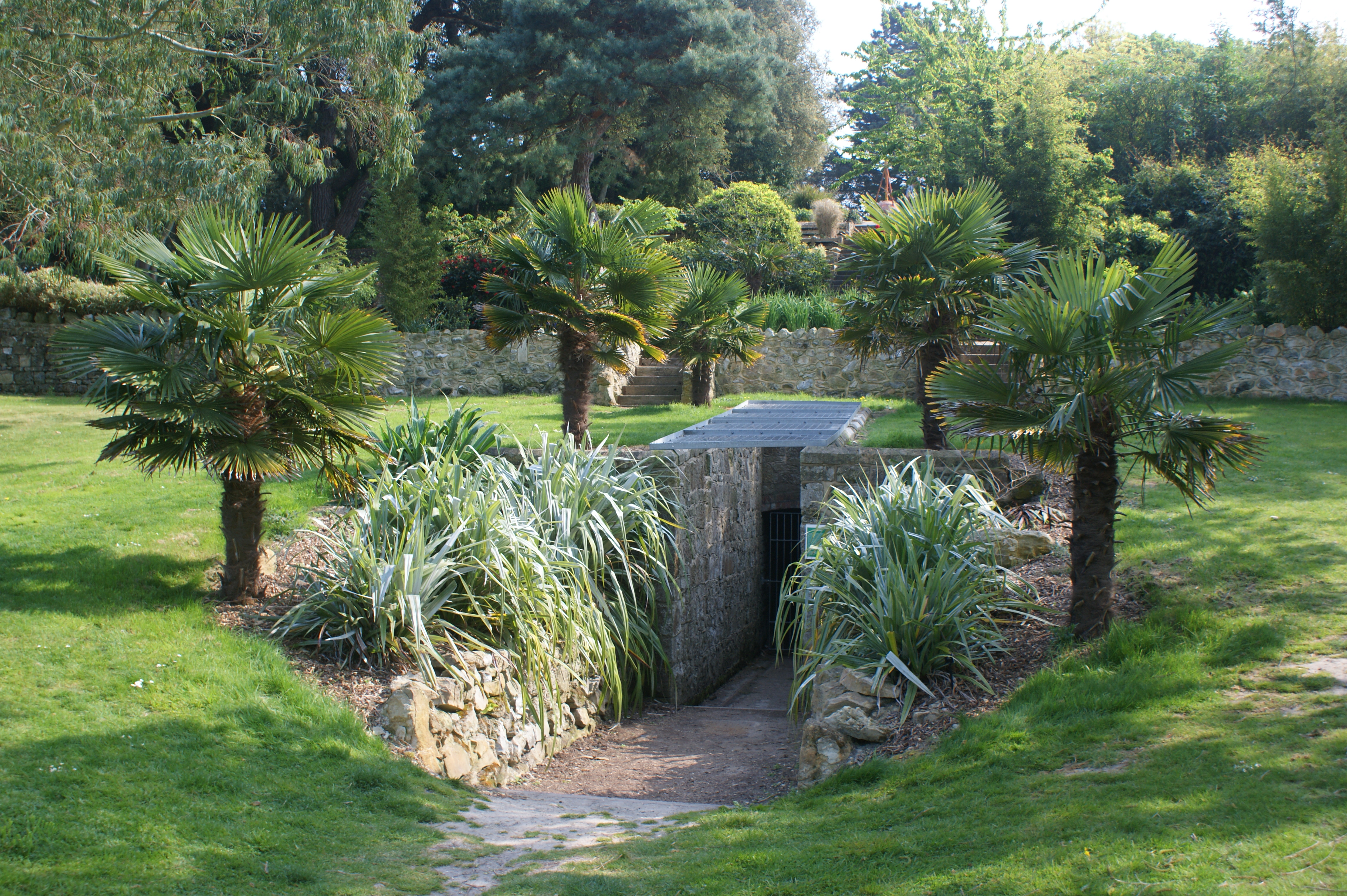 An underground tunnel, which leads out to the sea at Ventnor Botanic Garden, Ventnor, Isle of Wight. This is not open to the public.